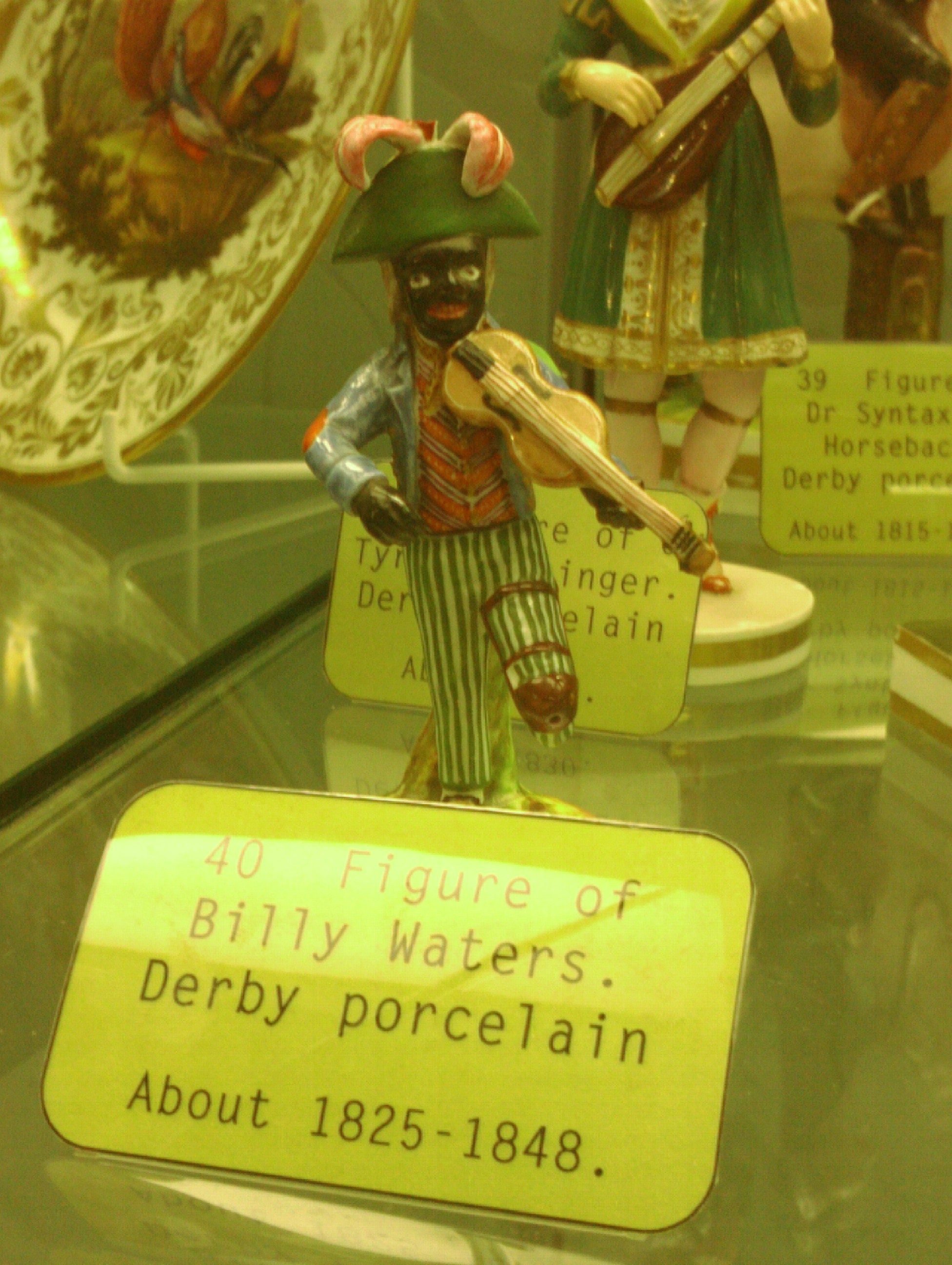 Billy Waters in Derby Porcelain in Derby Museum